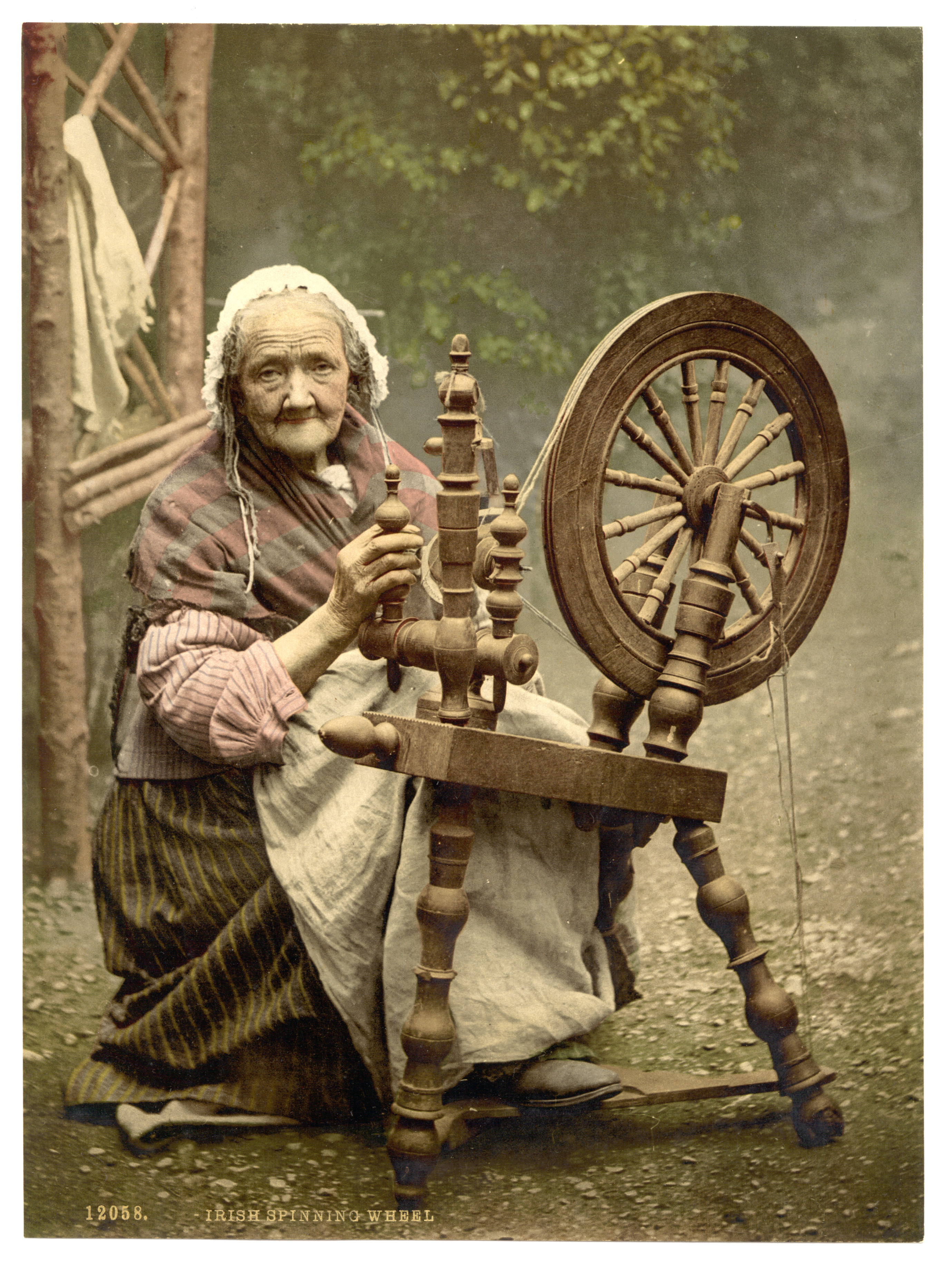 Irish Spinner and Spinning Wheel. Co. Galway, Ireland. This image belongs to the Category:Photochrom pictures in their original state. This is an unprocessed image. Its purpose is to show the properties of a photochrom print. Please do not modify this image. Modifications will be reverted.